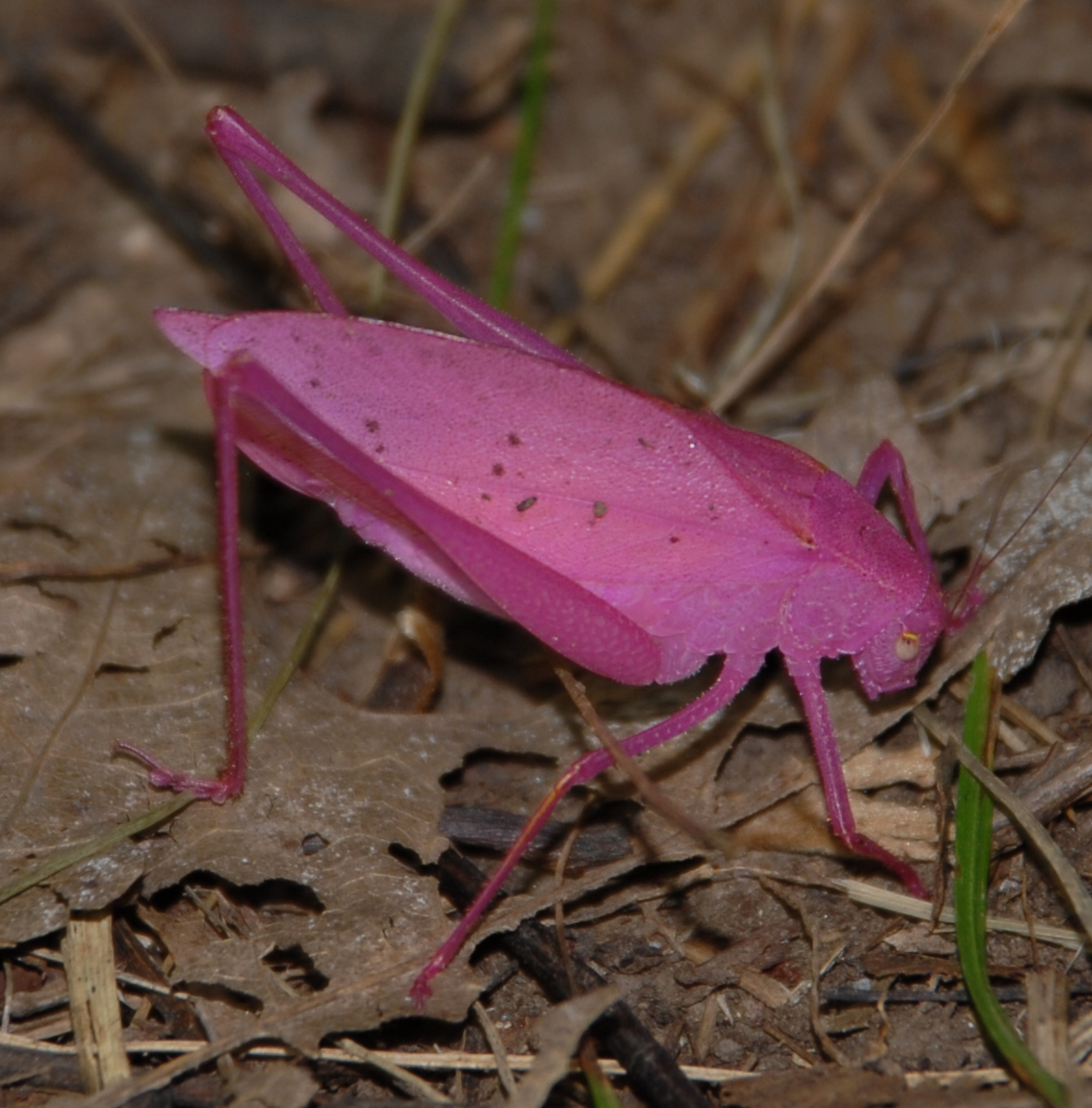 This katydid really was fluorescent pink. It's not enhanced in any way. The coloration (erythrism) is an adaptation sometimes found among katydids exposed to red or pink foliage, although this one was in the woods off the Appalachian Trail near Mount Peter, N.Y.